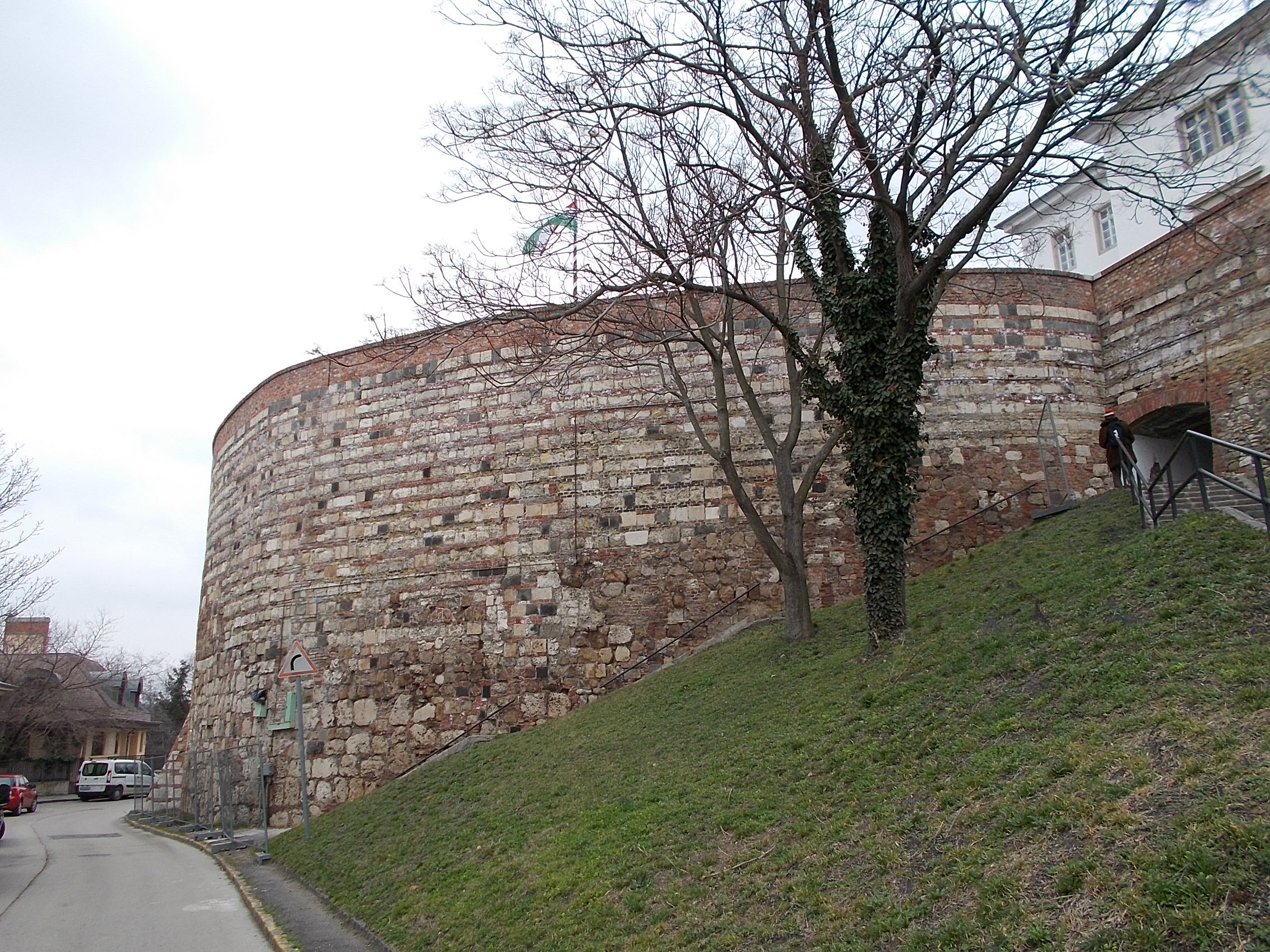 Esztergom rondella régi nevén Föld Bástya. - Lépcső a Hadtörténeti Múzeum kapujához. Része az Anjou-bástyának. -Lovas út, Budapest